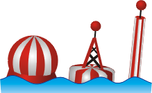 Safe water mark in IALA system.